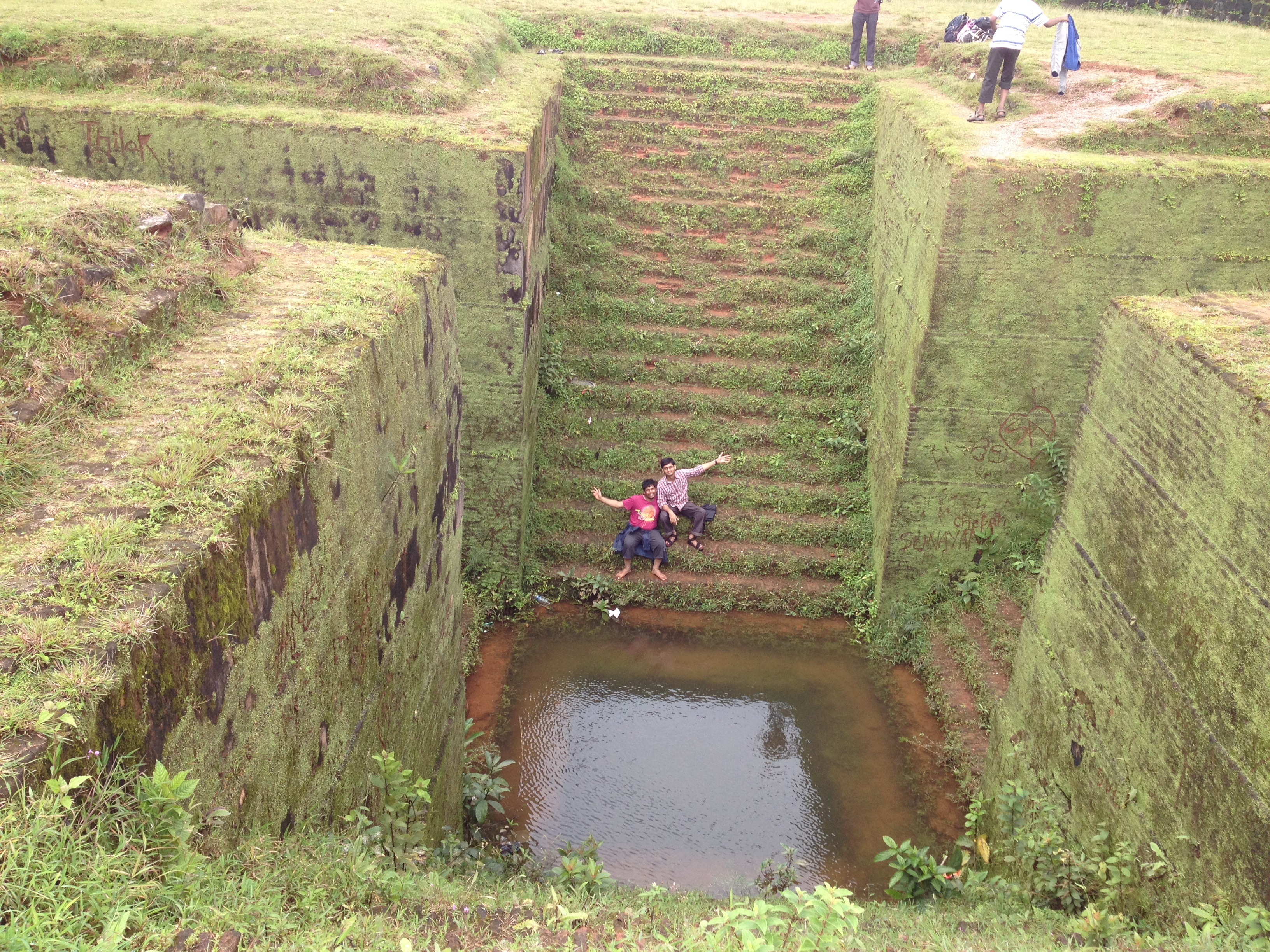 Fort and Dungeons